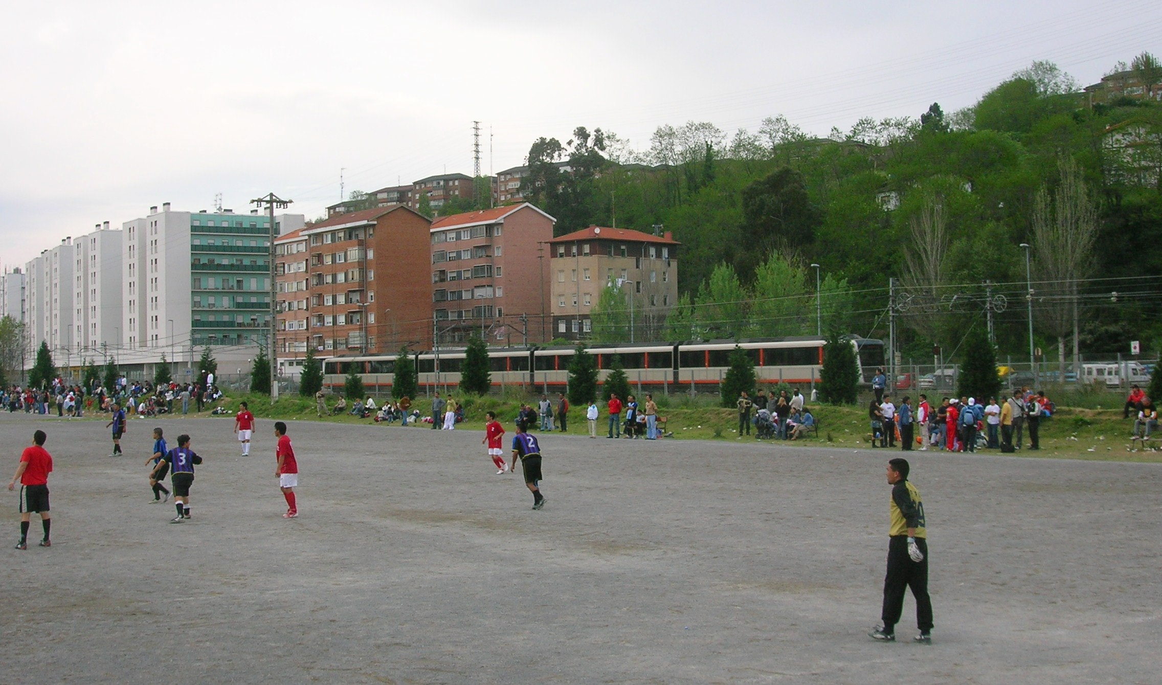 Soccer football match in La Chopera - Txopoeta, near Lamiaco-Lamiako, in Lejona-Leioa, Biscay. Lamiaco fields were the first placed where the British played football against the Biscayne in the XIX century, thus being one of the first places to hold football matches in Spain. Currently there still are football fileds in the neighbourhood, visited by crowds every weekend.